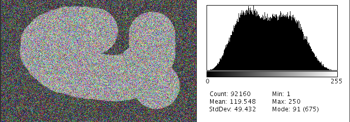 Image with Gaussian noise Česky: Obraz s Gausovským šumem